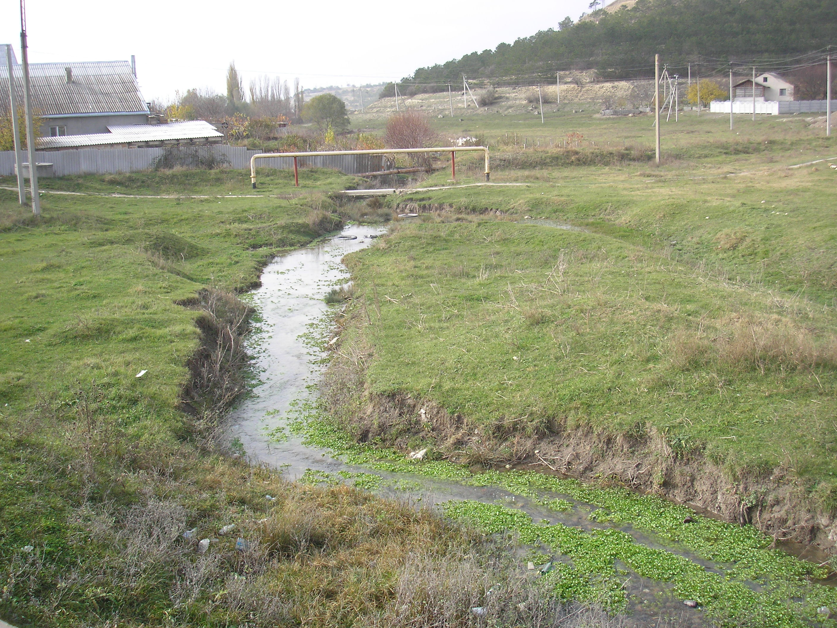 River Abdalka, Simferopol, Crimea.